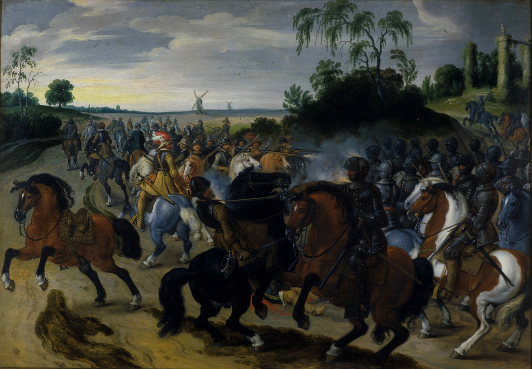 Cavalry engagement from the struggle of the Dutch against Spain